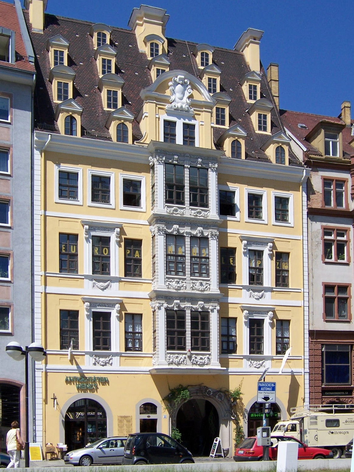 Fregehaus (baroque town house built in 1706/07) in Leipzig, Saxony (Germany) own work; photo taken on 14 June 2006